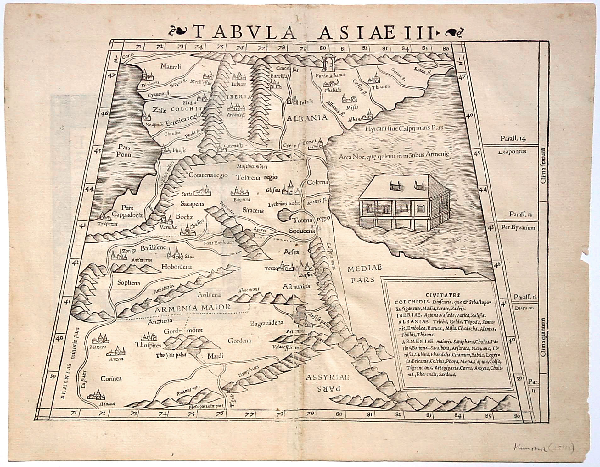 The 3rd Map of Asia (Tabula Asiae III), depicting the Caucasus, 1552, Basle. Shows Armenia Maior, Iberia, Albania, Colchis, Porte Albanie, the Euphratis River, the Tigris, Assyriae, and many other place names in the cradle of civilization